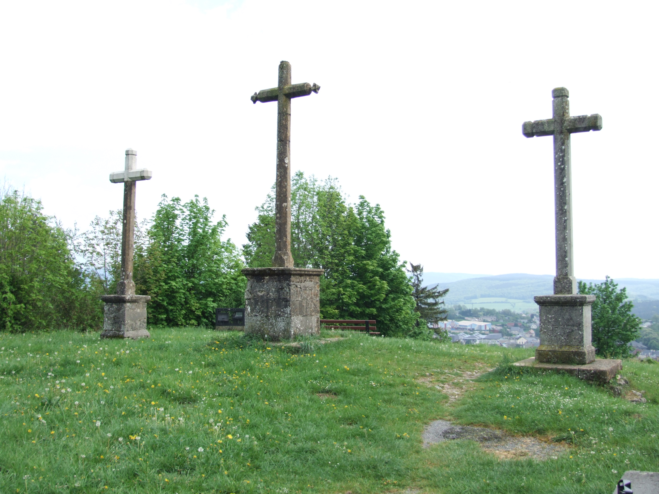 Château-Chinon (Ville), Nievre, Burgundy, FRANCE